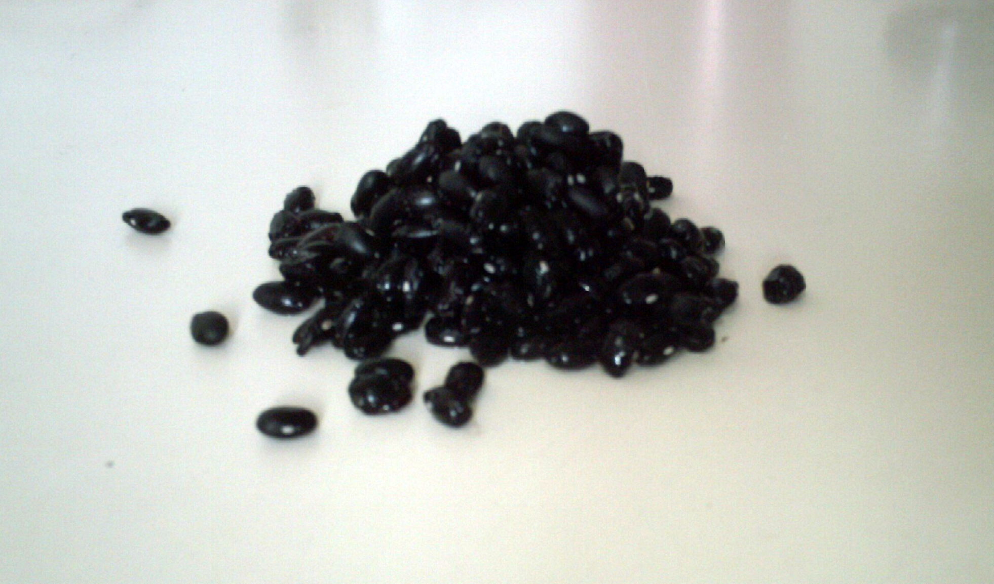 Black Beans